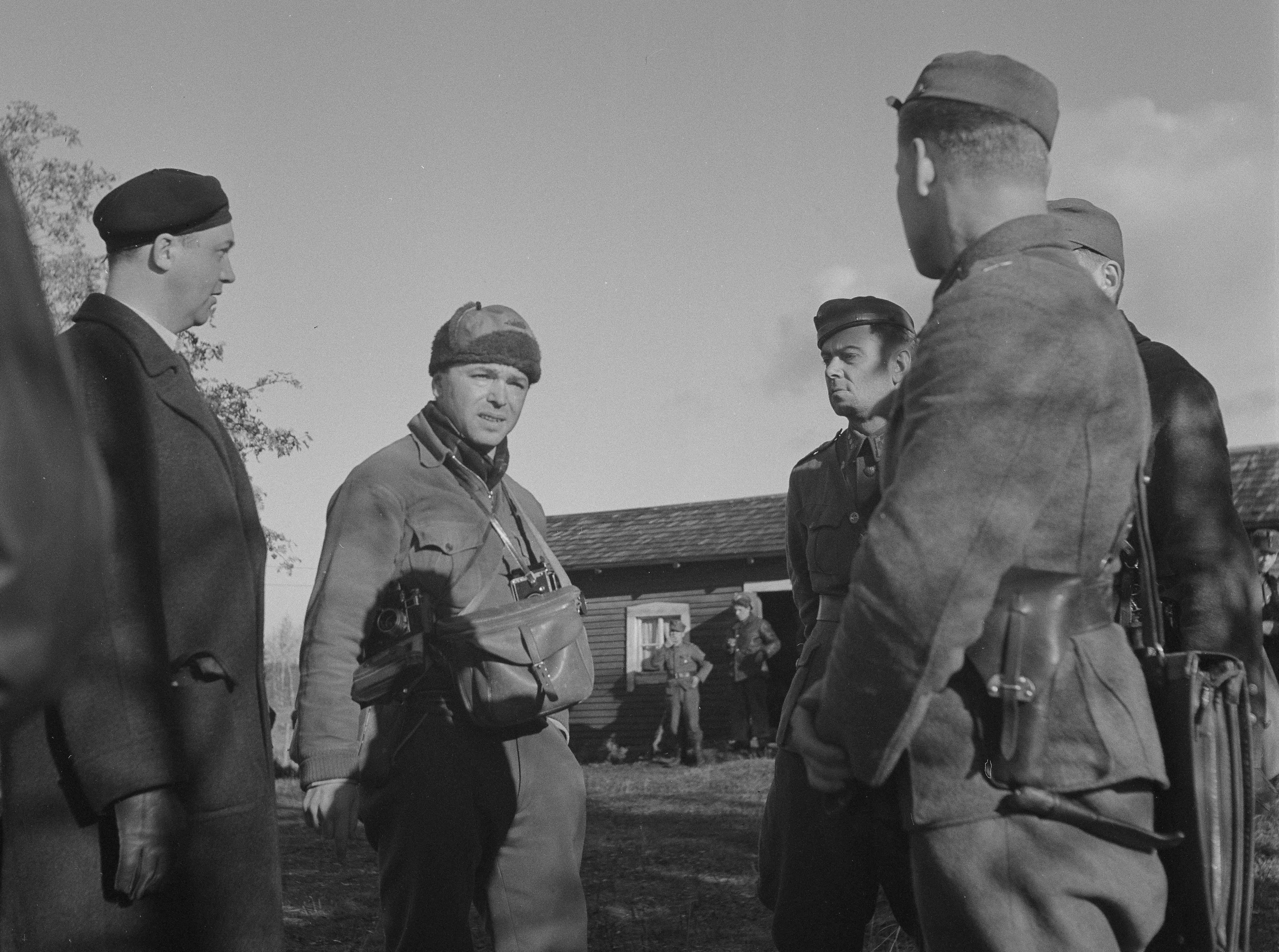 Photograph of the American documentary photographer and photojournalist Eliot Elisofon (1911–1973) talking with Finnish officers during World War II. To his left, radio reporter Bjornsson from NBC. Photograph taken near the road from Tornio to Kemi.